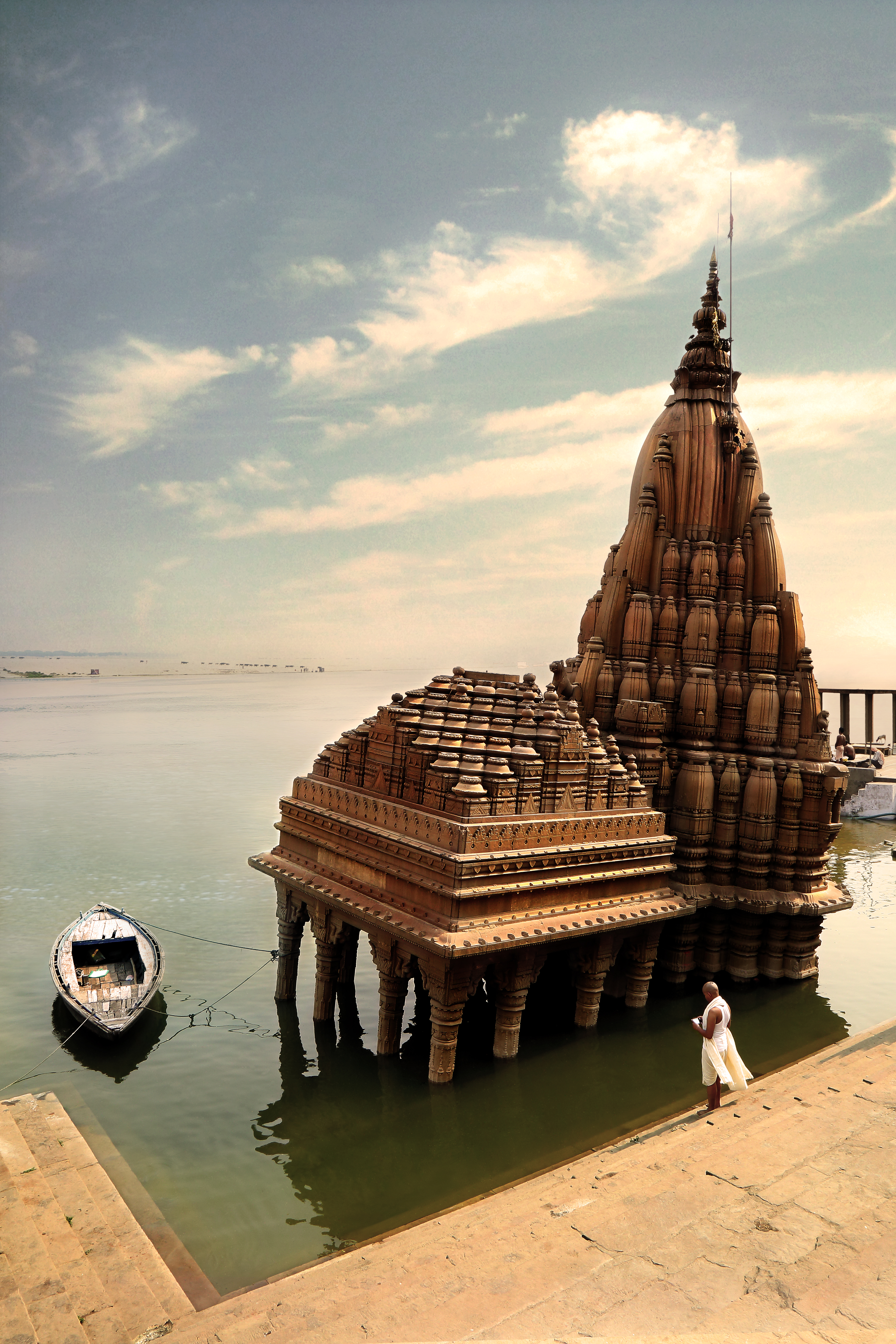 Shiv temple is a very famous and beautiful temple located at the Scindia ghat of Varanasi, Uttar Pradesh,India. The main centre of attraction was the temple lying partially submerged in the Ganges River and the architectural beauty of that temple,near a priest was coming for ‘’evening arti ‘’ and right side a empty boat was stand there,these things made this view a “blanced view”.. So I clicked it with evening rays of sun,which was shining at architectural view of temple and glittering on its peak.